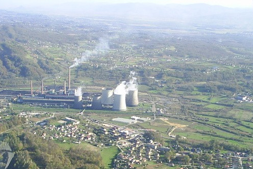 Tuzla coal power plant station seen from a helicopter, BiH